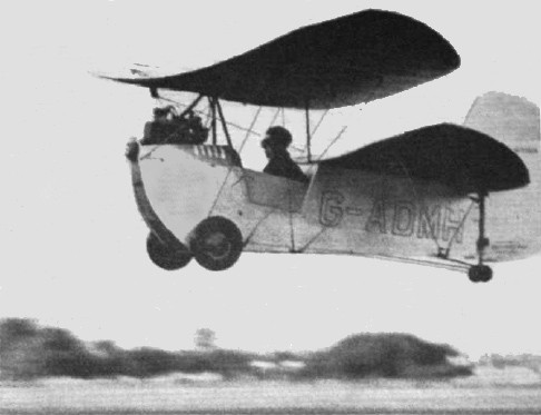 Mignet HM.14 Pou du Ciel "Flying Flea" (G-ADMH) at Heston Airport 3 October 1935